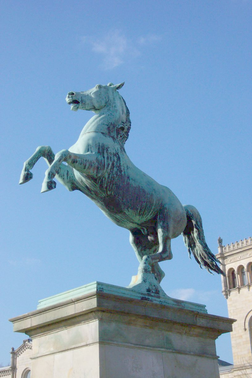 Bronze statue of the "Sachsenross" ("Saxon Horse"), created by sculptor Albert Wolff in 1865, now standing in front of the "Welfenschloss" Palace, home of the Hannover University